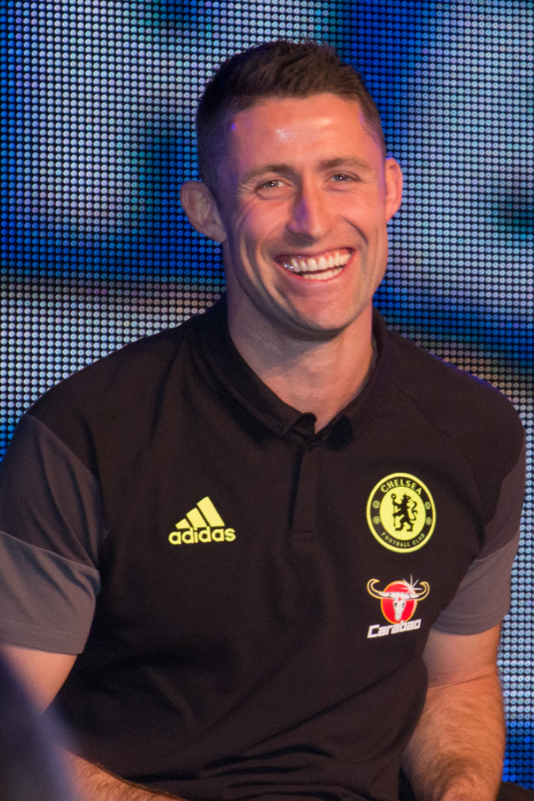 Gary Cahill during "An evening with" event in 2017